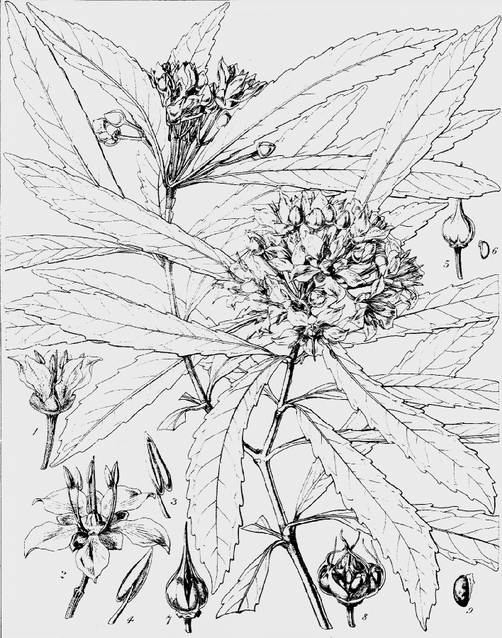 Hooker's Icones Plantarum, vol 6. Tab 577